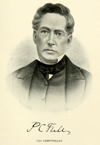 Philo C. Fuller, U.S. Representative from New York, 1833-1836 Other information Originally from Roberts, James A.; _A Century in the Comptroller's Office, State of New York, 1797 to 1897_; Albany NY, James B. Lyon; 1897. Digitized by Richard J. Shiffer.